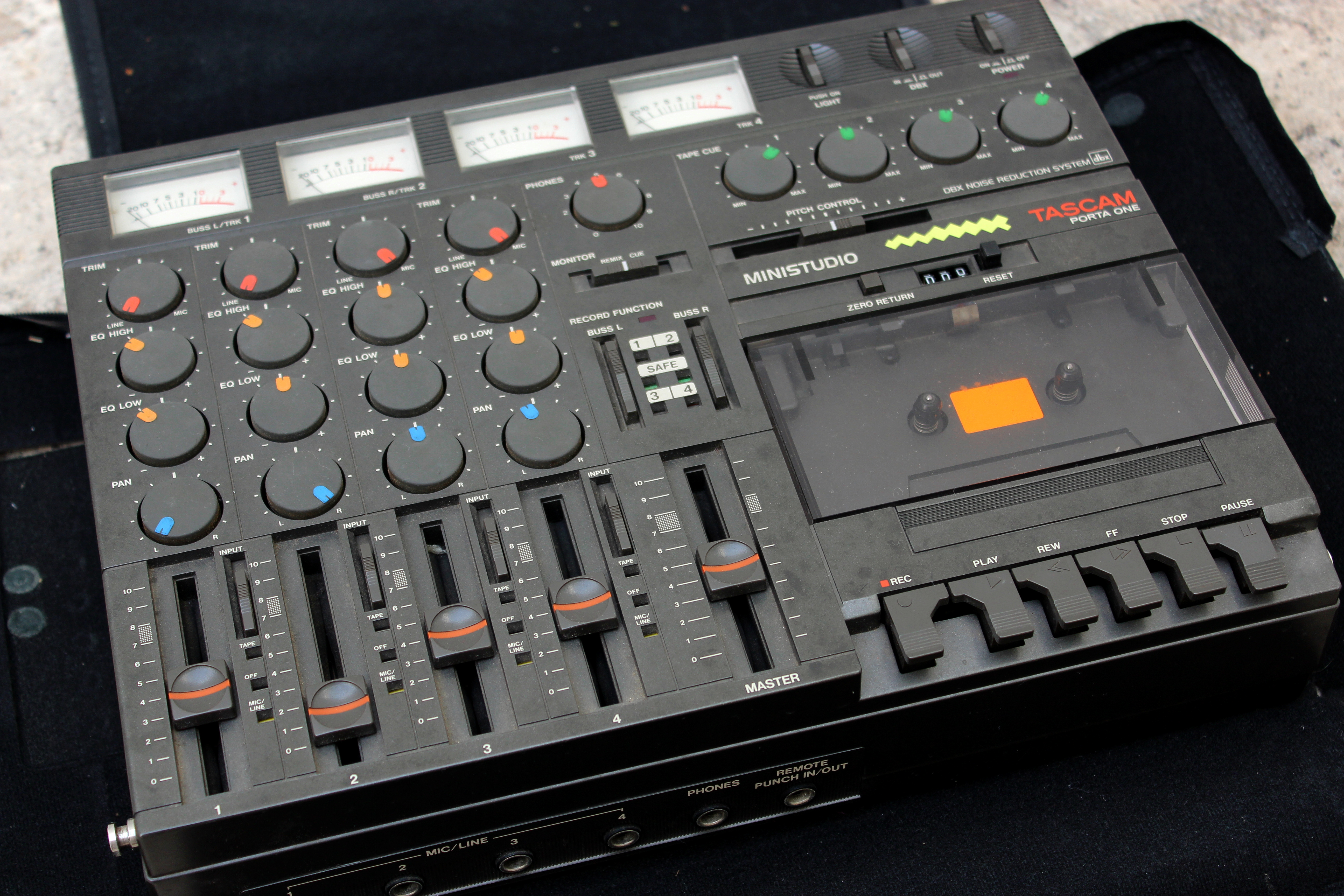 Tascam Ministudio PortaOne - 4 track recorder on standard cassette tapes